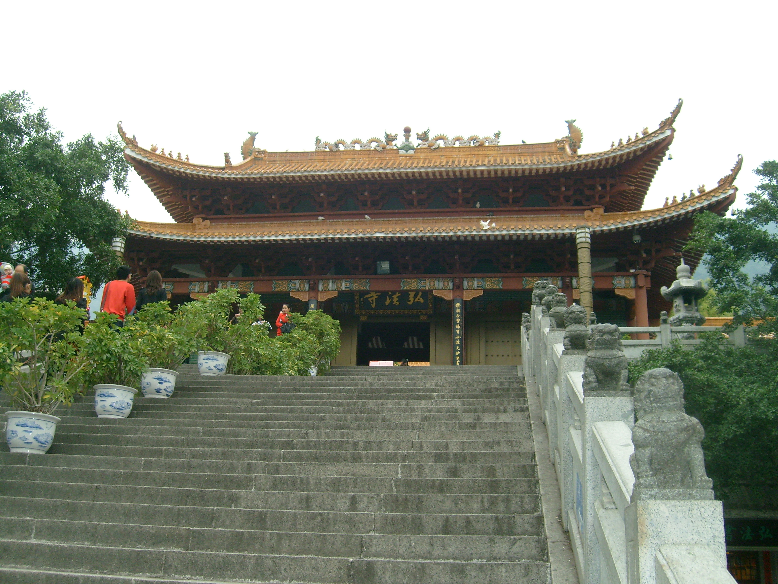 The Shanmen Hall at Hongfa Temple, in Shenzhen, Guangdong, China.